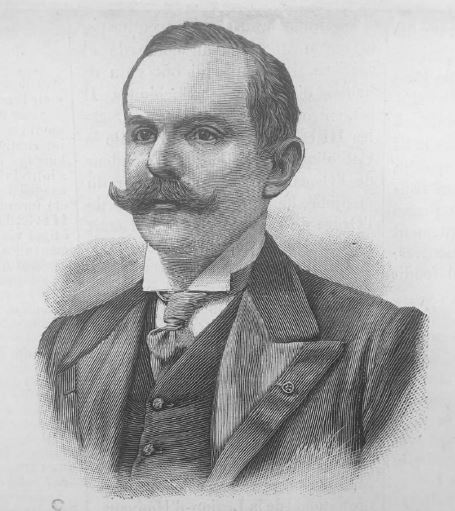 Drawing of the Belgian diplomat Maurice Joostens published in the French review La Revue Diplomatique.